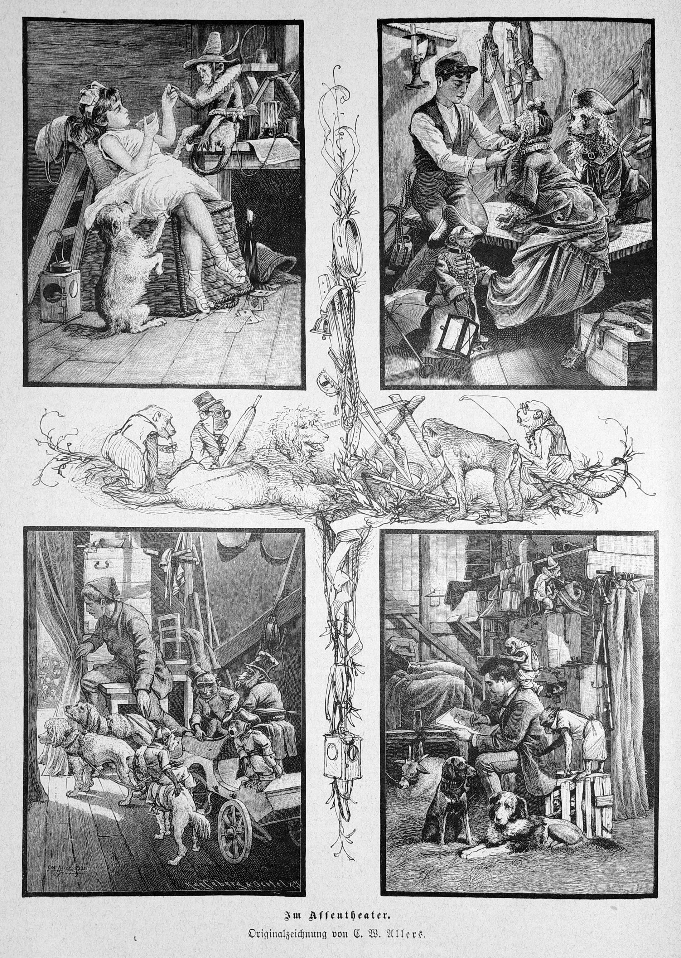 In an ape theatre